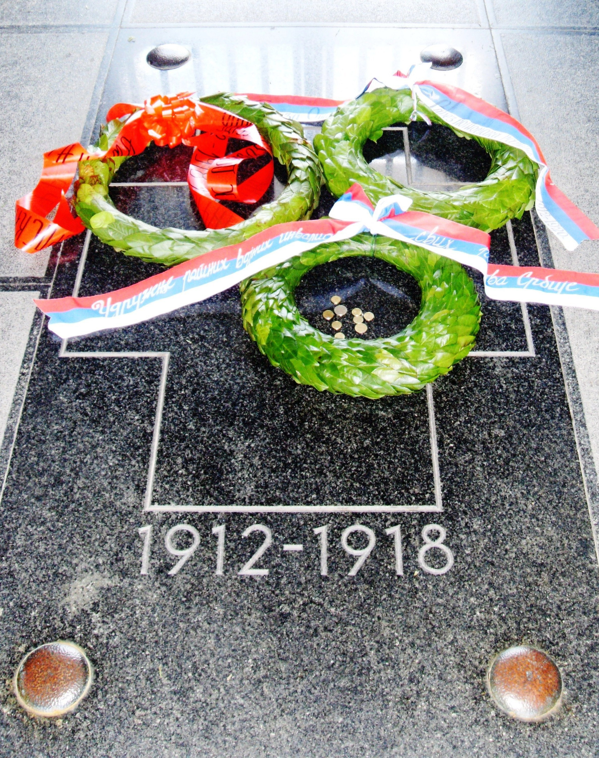 The Monument to the Unknown Hero (Serbian: Споменик Незнаном јунаку / Spomenik Neznanom junaku) is located atop Mt. Avala in Serbia, south-east of the capital, Belgrade, and was designed by the Croatian-Yugoslav sculptor Ivan Meštrović.